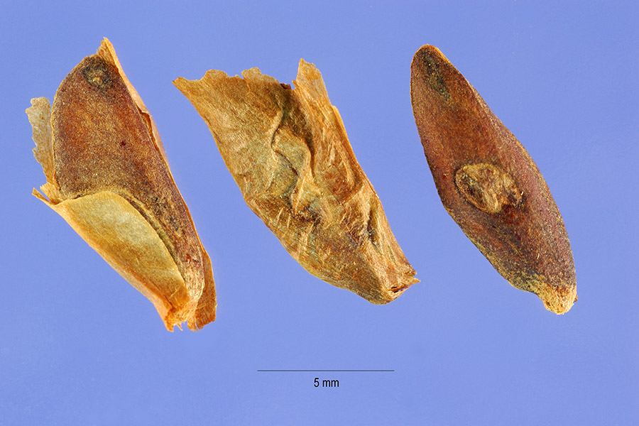 Seeds of the noble fir (Abies procera)